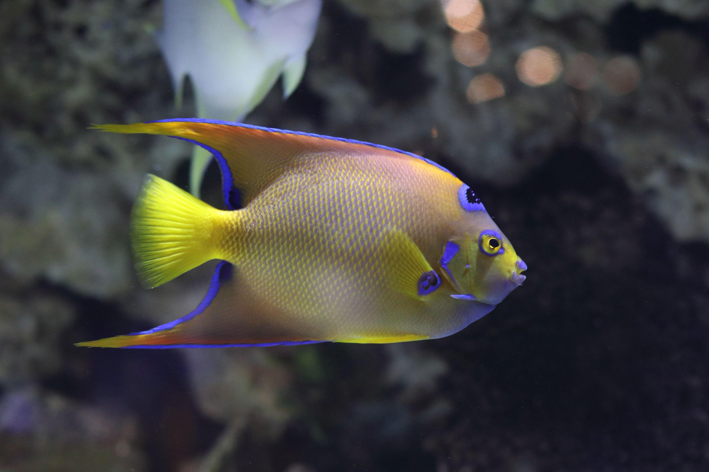 Holacanthus ciliaris taken at Newport, Ky aquarium